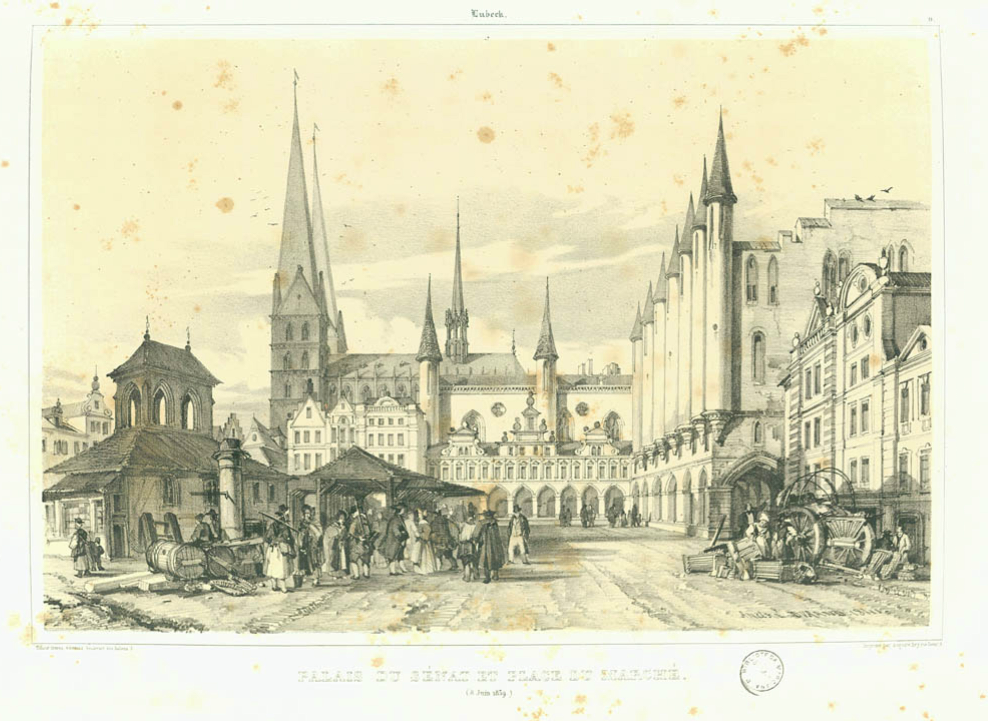 Original French title: Lubeck. Palais du Sénat et Place du Marché (8 juin 1839) - "Lübeck. Palace of the Senate and Market Place (8 June 1839)"